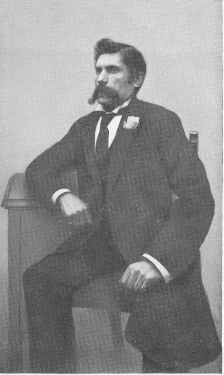 Seweryn Kłosowski.